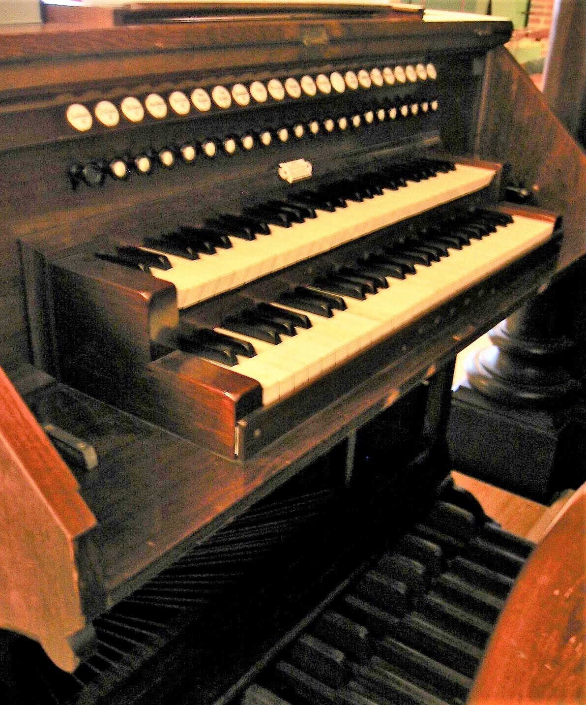 Orgelzentrum Valley